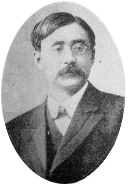 A Japanese man 新渡戸稲造 (Inazo Nitobe)